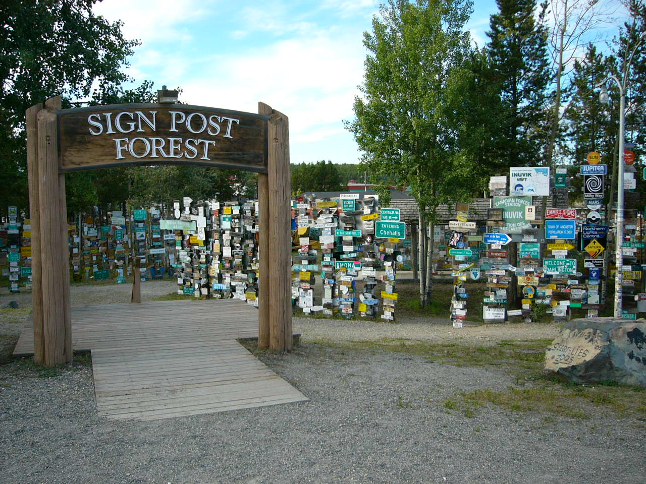 Yufei Yuan on August 15th, 2005.